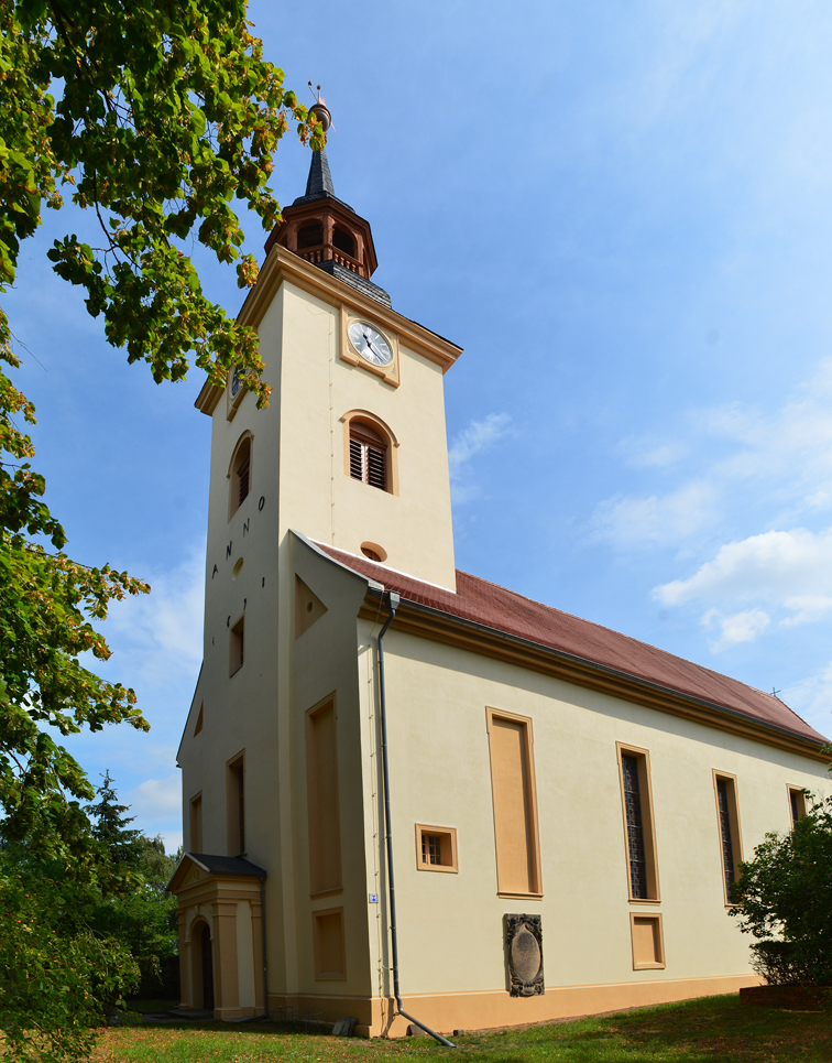 Church Holy Trinity bell tower